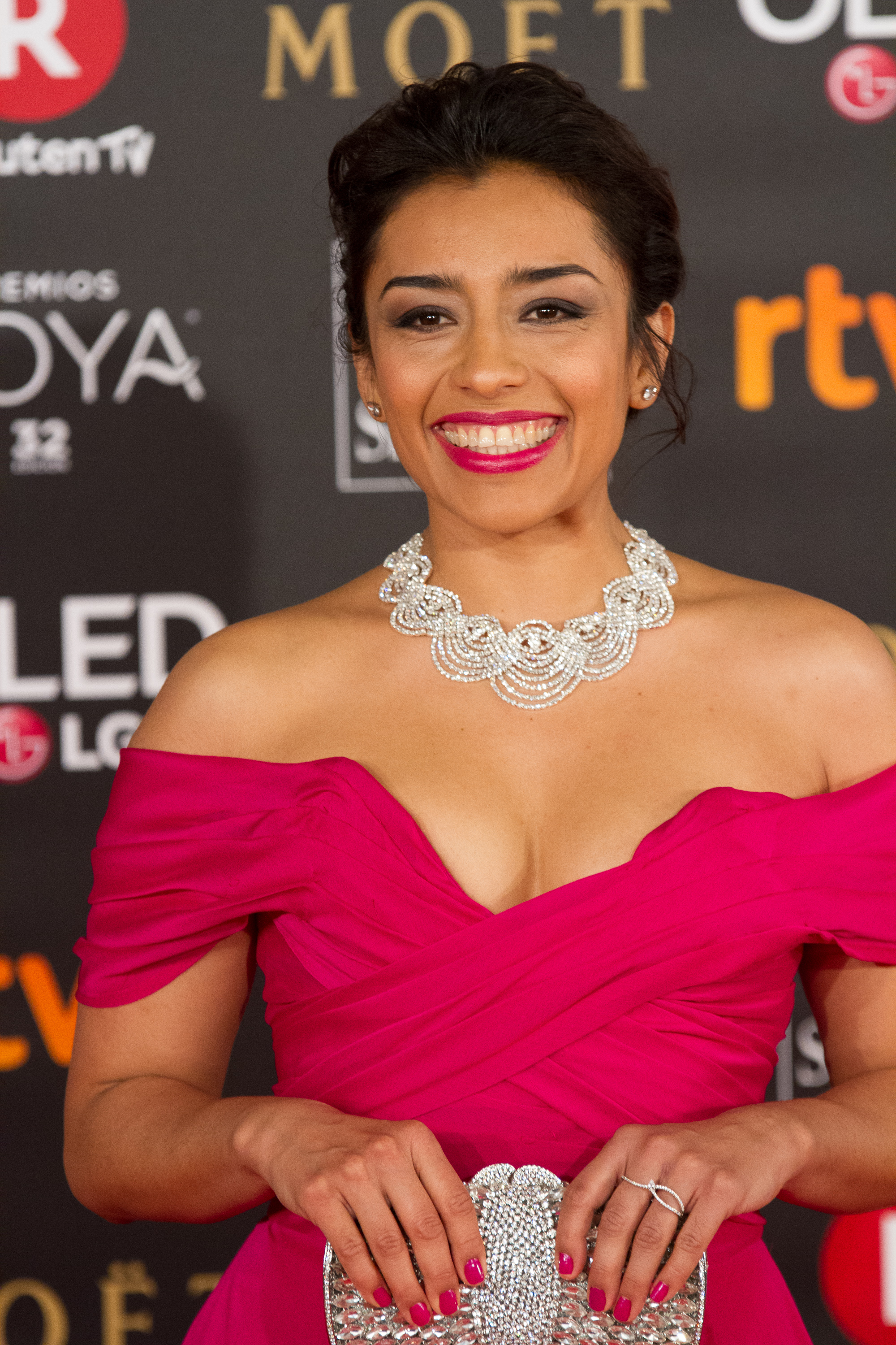 32nd Goya Awards, 2018.